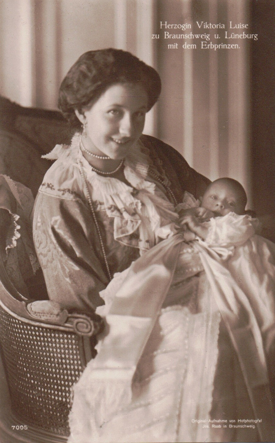 Herzogin Viktoria Luise zu Braunschweig und Lüneburg mit dem Erbprinzen, 1914